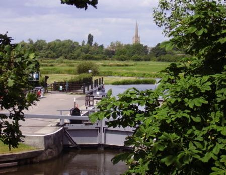 Free image - Modified version of File:St John's Lock and Lechlade in background.JPG, an existing GFDL image on Wikipedia created by Ballista.